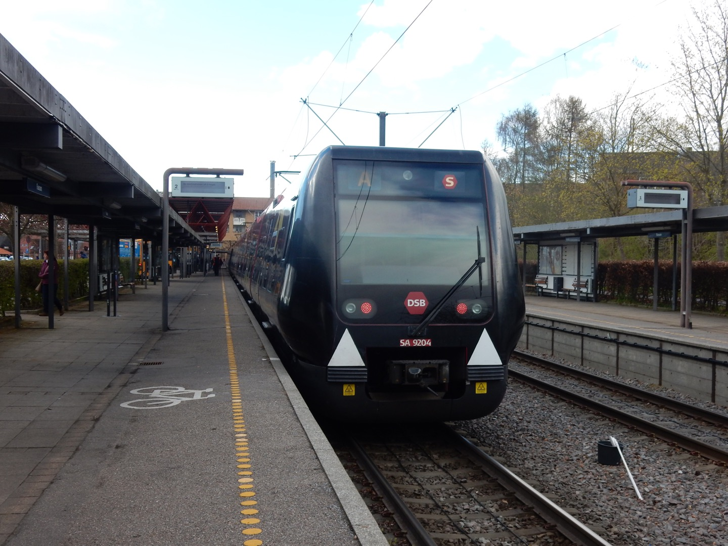 An S-tog trainset at Farum station